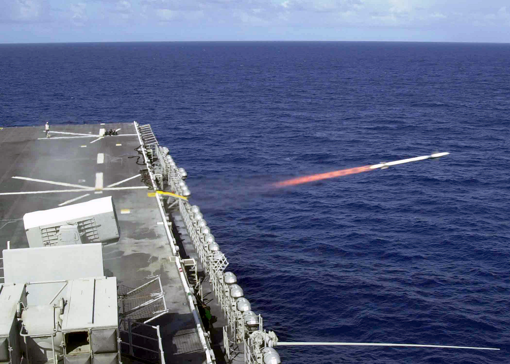 A RIM-116 Rolling Airframe Missile is launched after locking onto its target during a live fire missile exercise on board the USS BATAAN (LHD 5) (Wasp class).